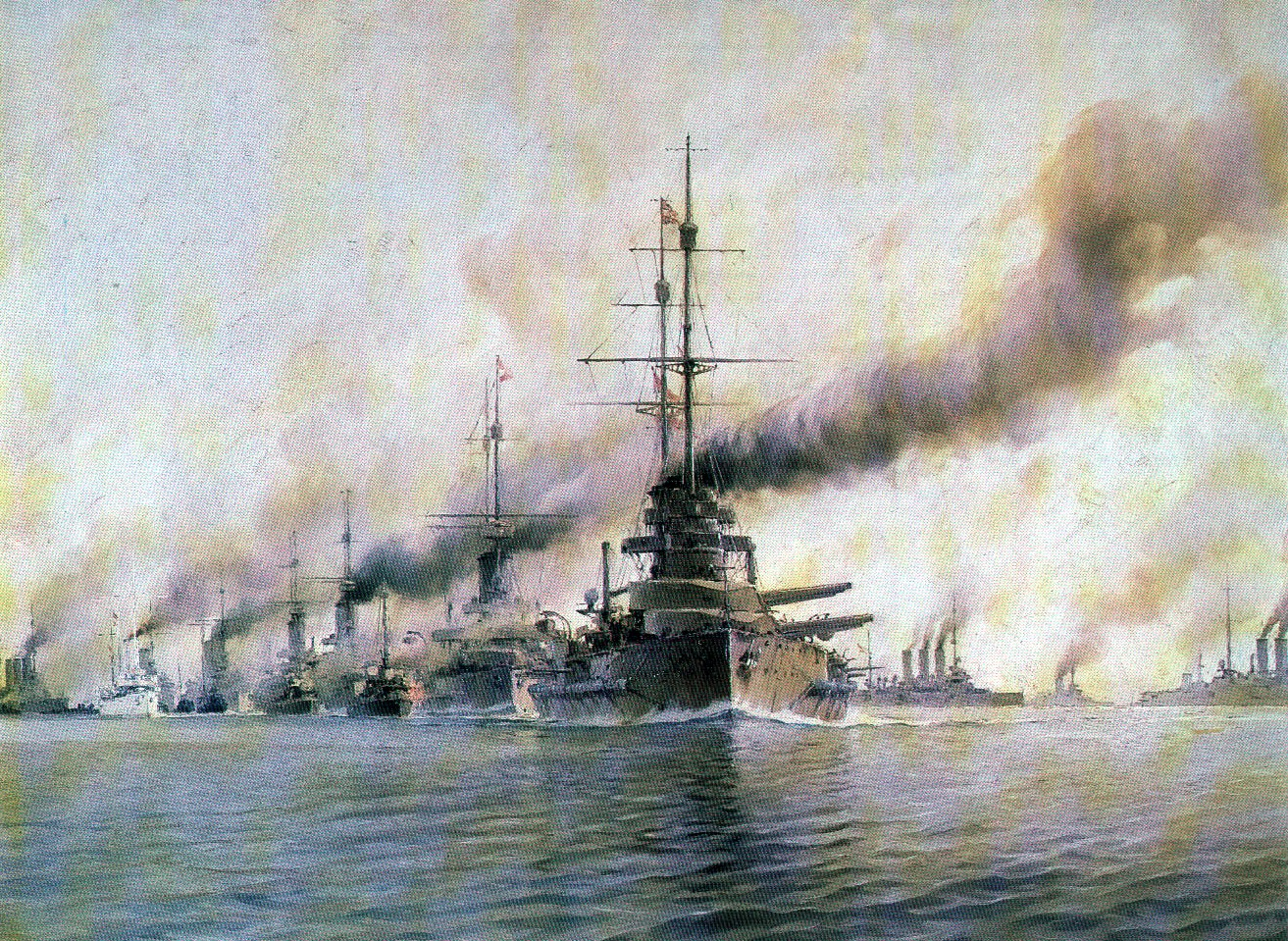 Austro-Hungarian fleet on maneuvers